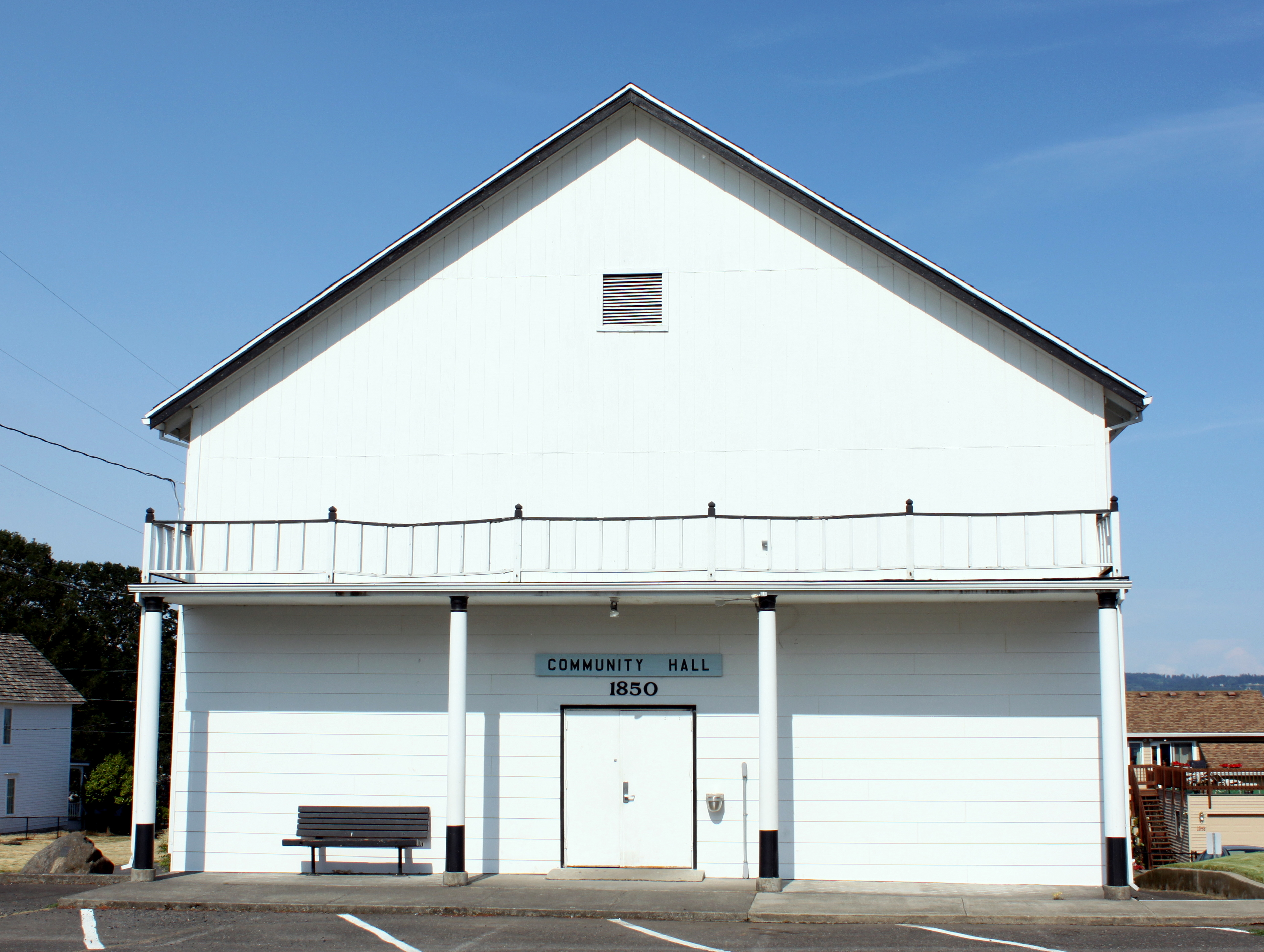 Community Hall in Columbia City, Oregon.